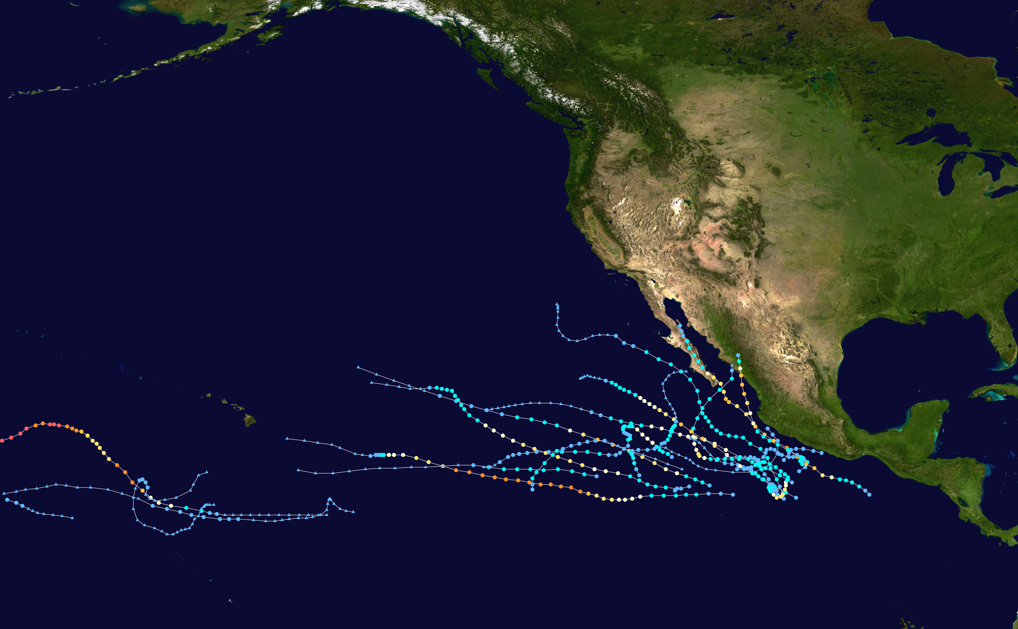 This map shows the tracks of all tropical cyclones in the 2006 Pacific hurricane season. The points show the location of each storm at 6-hour intervals. The colour represents the storm's maximum sustained wind speeds as classified in the Saffir-Simpson Hurricane Scale (see below), and the shape of the data points represent the type of the storm. Saffir–Simpson hurricane wind scale Tropical depression≤38 mph≤62 km/h Category 3111–129 mph178–208 km/h Tropical storm39–73 mph63–118 km/h Category 4130–156 mph209–251 km/h Category 174–95 mph119–153 km/h Category 5≥157 mph≥252 km/h Category 296–110 mph154–177 km/h Unknown Storm typeTropical cycloneSubtropical cycloneExtratropical cyclone / Remnant low / Tropical disturbance